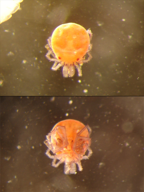 A fresh-water mite (Hydrachnidia), Sperchon sp.; 0,7 mm in diameter.